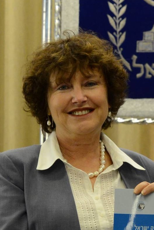 Karnit Flug , Governor of the Central Bank of Israel